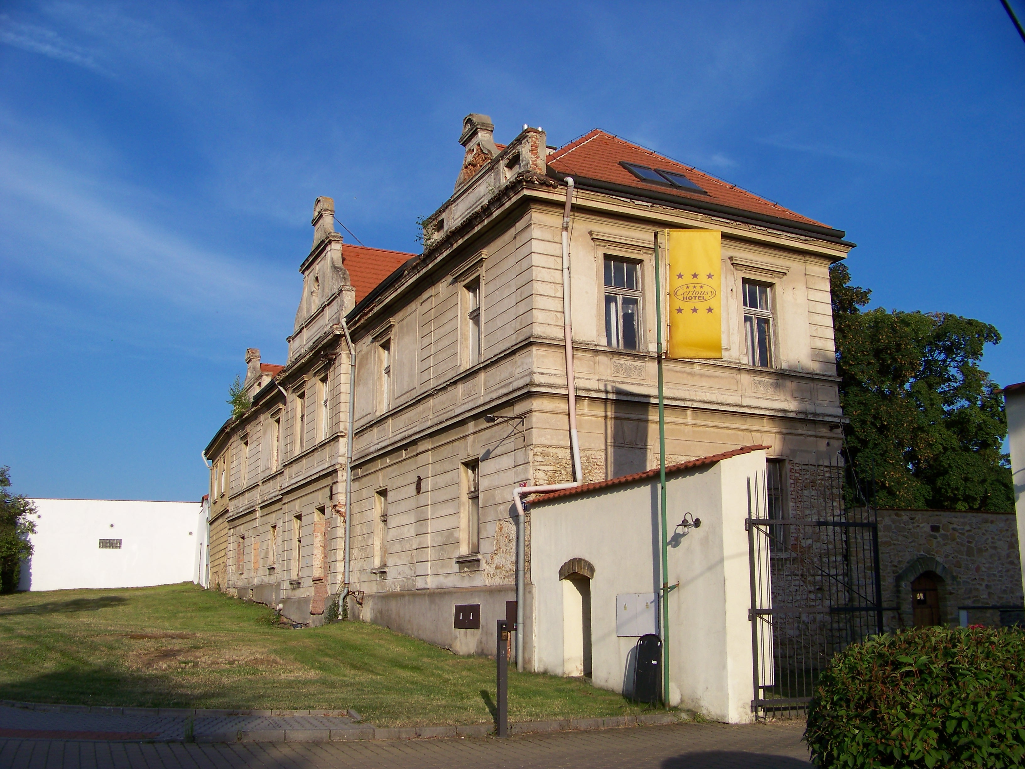 Prague-Horní Počernice. Čertousy, Bártlova street, a farm. - OpenStreetMap(Info)